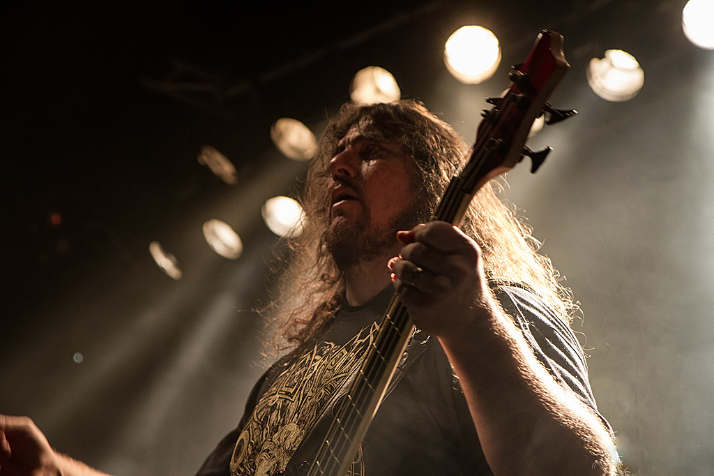 Obituary - 7.12.2012 - Music Hall, Geiselwind